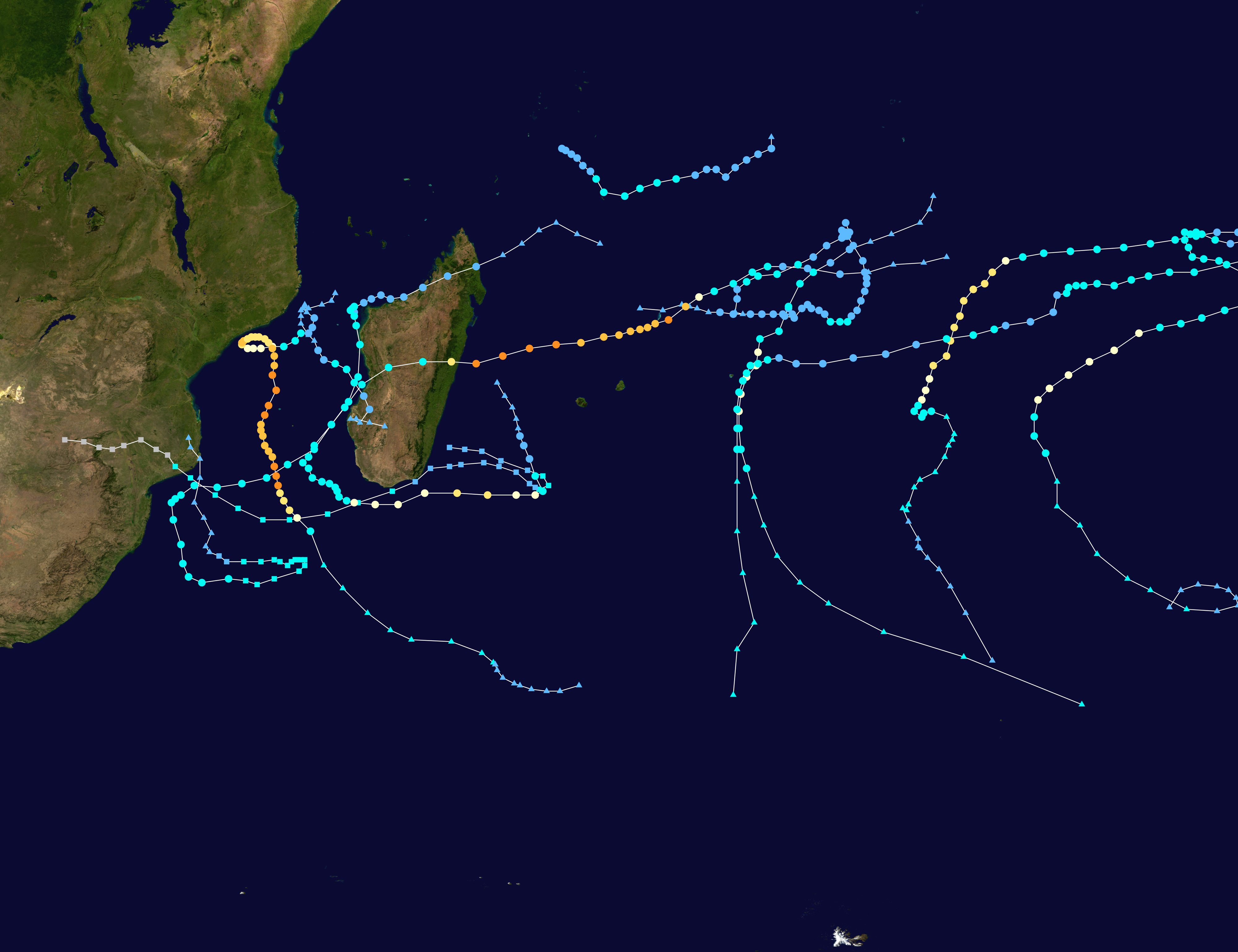 This map shows the tracks of all tropical cyclones in the 2011-12 South-West Indian Ocean cyclone season. The points show the location of each storm at 6-hour intervals. The colour represents the storm's maximum sustained wind speeds as classified in the Saffir-Simpson Hurricane Scale (see below), and the shape of the data points represent the type of the storm. Saffir–Simpson scale Tropical depression≤38 mph≤62 km/h Category 3111–129 mph178–208 km/h Tropical storm39–73 mph63–118 km/h Category 4130–156 mph209–251 km/h Category 174–95 mph119–153 km/h Category 5≥157 mph≥252 km/h Category 296–110 mph154–177 km/h Unknown Storm type Tropical cyclone Subtropical cyclone Extratropical cyclone / Remnant low / Tropical disturbance / Monsoon depression